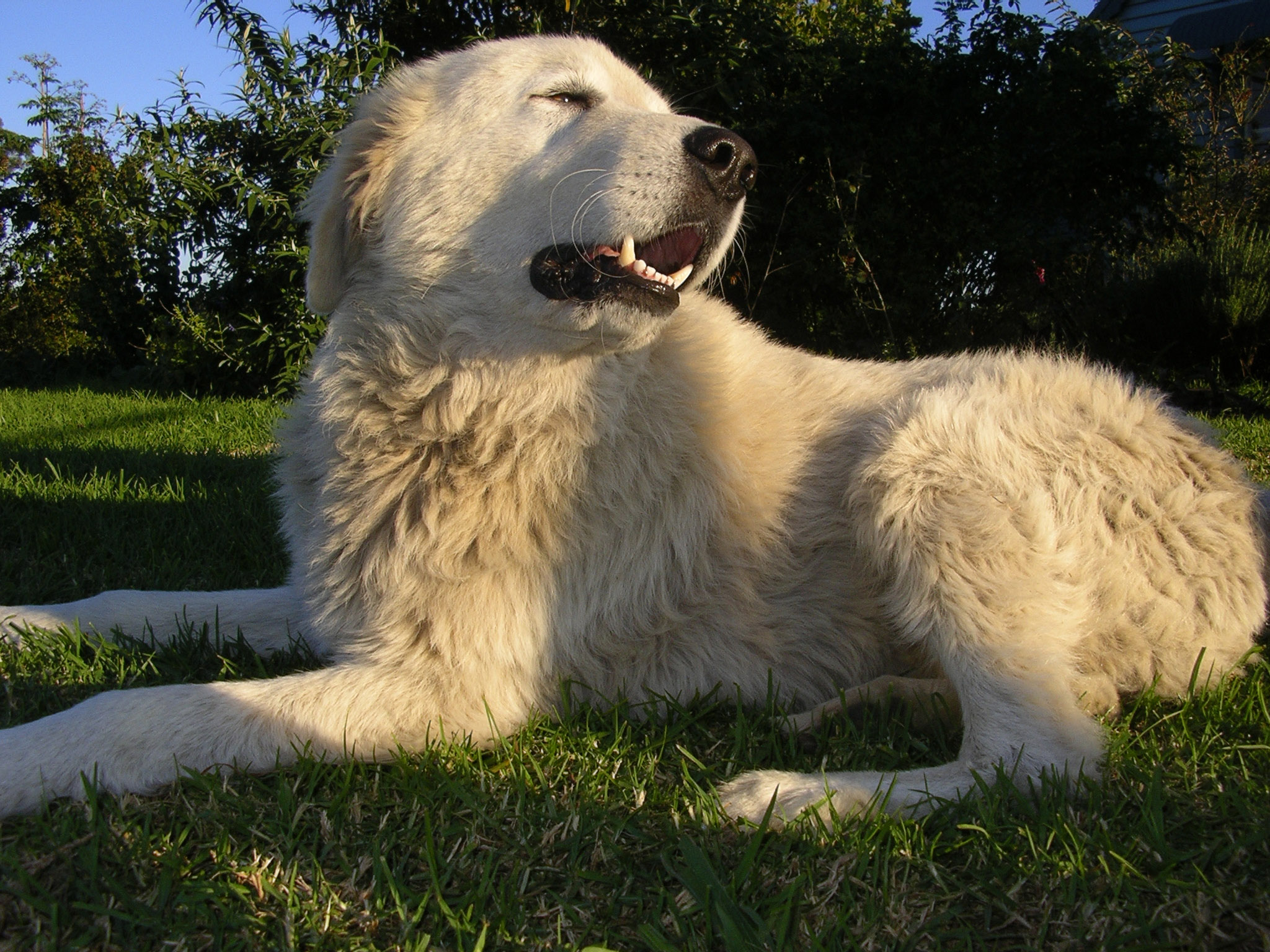 Maremma sheepdog